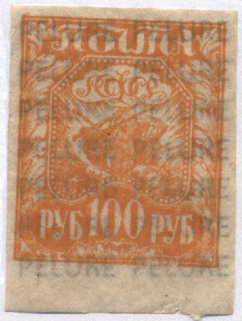 Soviet Union 1924 100r with PELURE demonstrating semi-transparent paper.